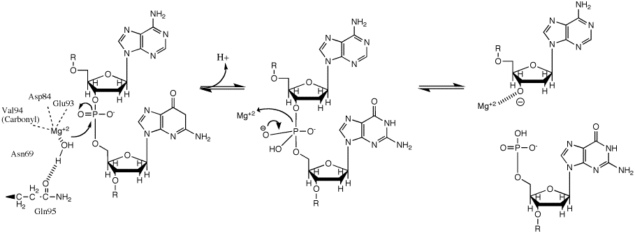 BglII catalyses phosphodiester bond cleavage at the DNA backbone through a phosphoryl transfer to water. Studies on the mechanism of restriction enzymes have revealed several general features that seem to be true in almost all cases, although the actual mechanism for each enzyme is most likely some variation of this general mechanism. This mechanism requires a base to generate the hydroxide ion from water, which will act as the nucleophile and attack the phosphorus in the phosphodiester bond. Also required is a Lewis acid to stabilize the extra negative charge of the pentacoordinated transition state phosphorus as well as a general acid or metal ion that stabilizes the leaving group (3’-O-).